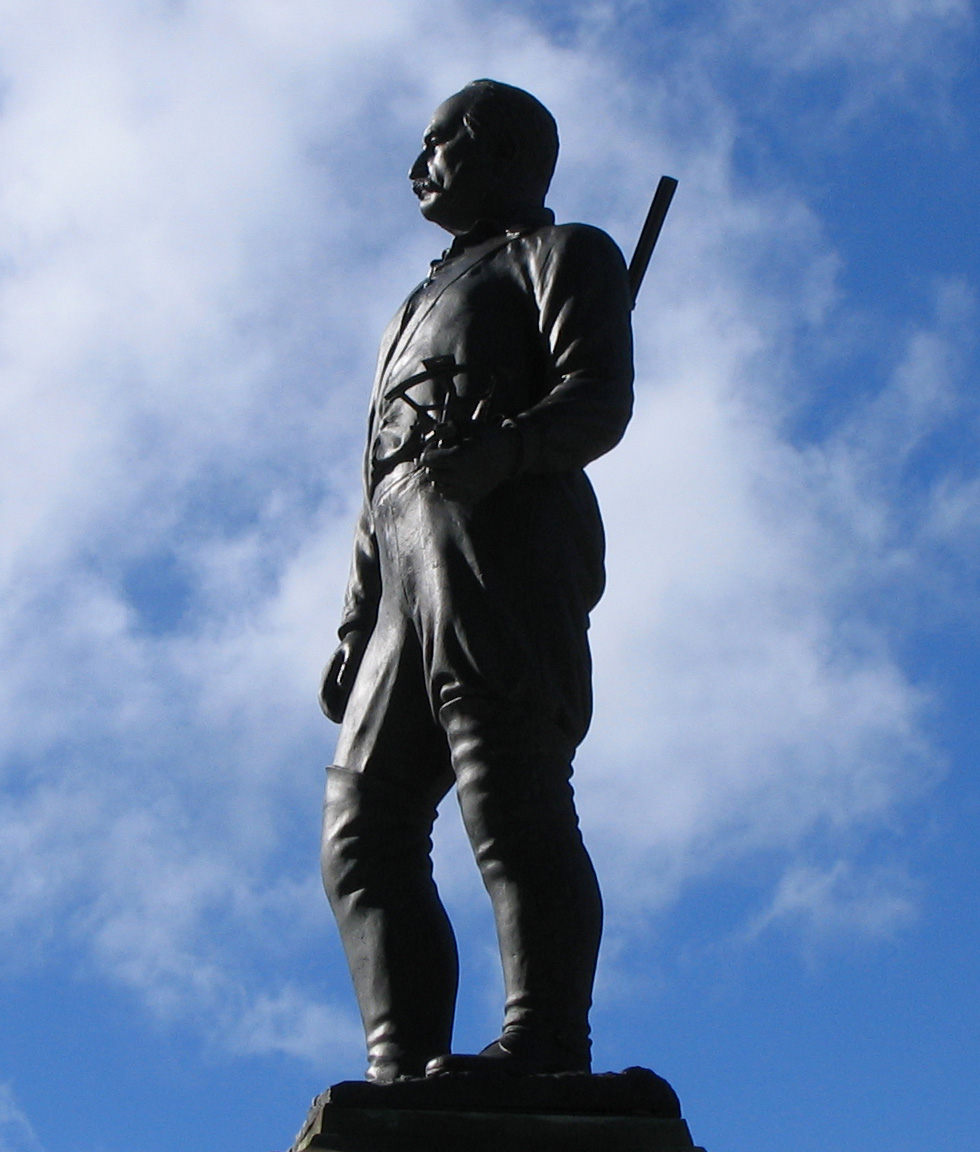 Statue of Alexander Forrest by Pietro Porcelli at entrance to Stirling Gardens, corner of Barrack St and St Georges Tce, Perth, Australia.